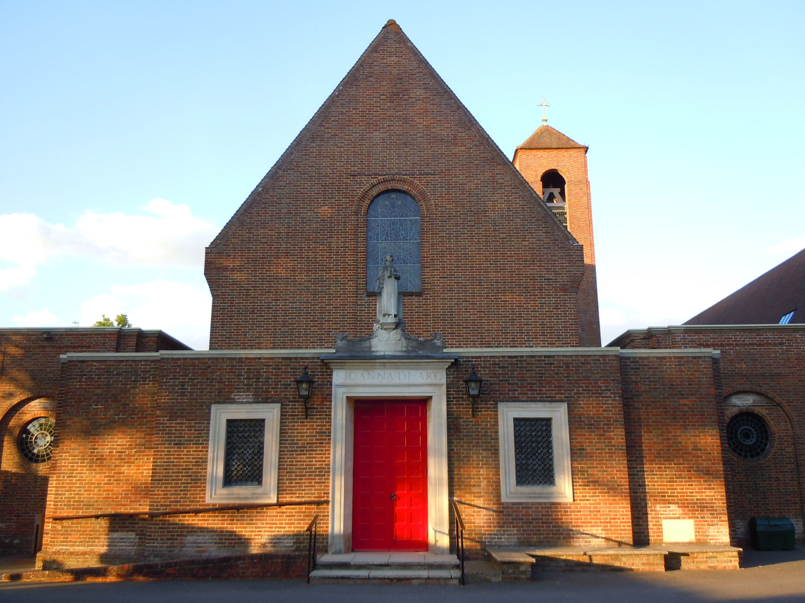 St Joan of Arc's Church, Tilford Road, Farnham. The Roman Catholic parish church of Farnham.